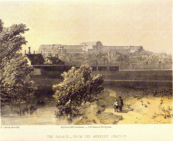 Anerley Gardens with The Crystal Palace in the back ground approx 1860